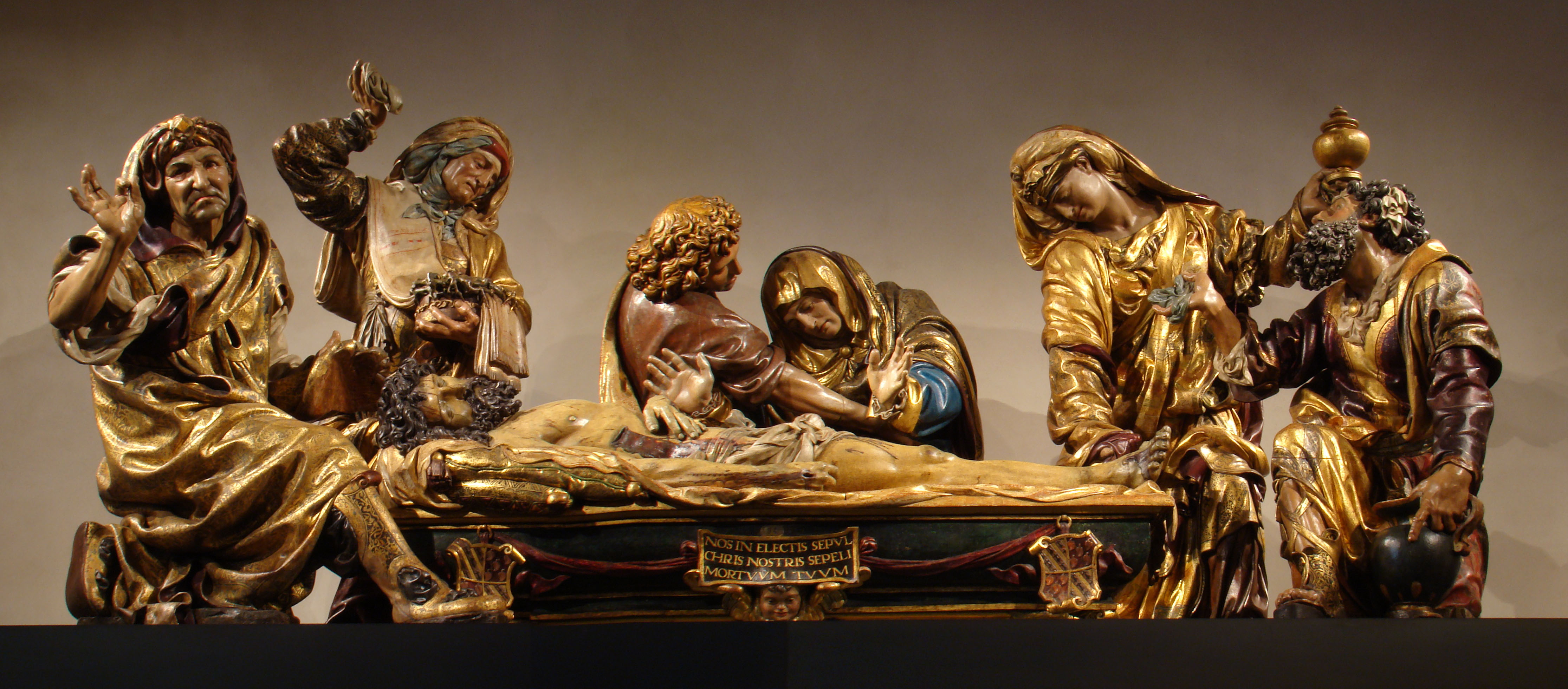 The "Holy Burial", sculpture in polychromed wood by the renaissance sculptor Juan de Juni. It belonged to the altarpiece in the chapel of the Holy Sepulchre or the Mondoñedo bishop, in the cloister of the disappeared convent of San Francisco in Valladolid, now in the National Museum of Sculpture in Valladolid, Spain.